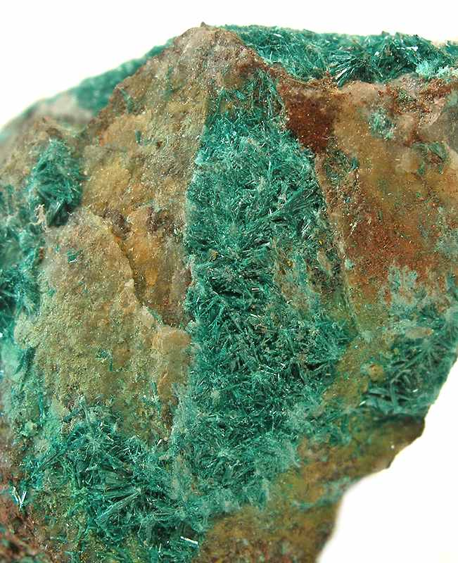 Botallackite Locality: Levant Mine, Trewellard, Botallack - Pendeen Area, St Just District, Cornwall, England, UK (Locality at ) Size: miniature, 3.5 x 2.3 x 1.0 cm Botallackite A small matrix specimen hosting myriad microcrystals of the rare species botallackite, obtained from dealer A.L. McGuiness long ago. An excellent reference example for the species. Ex. John White Collection.